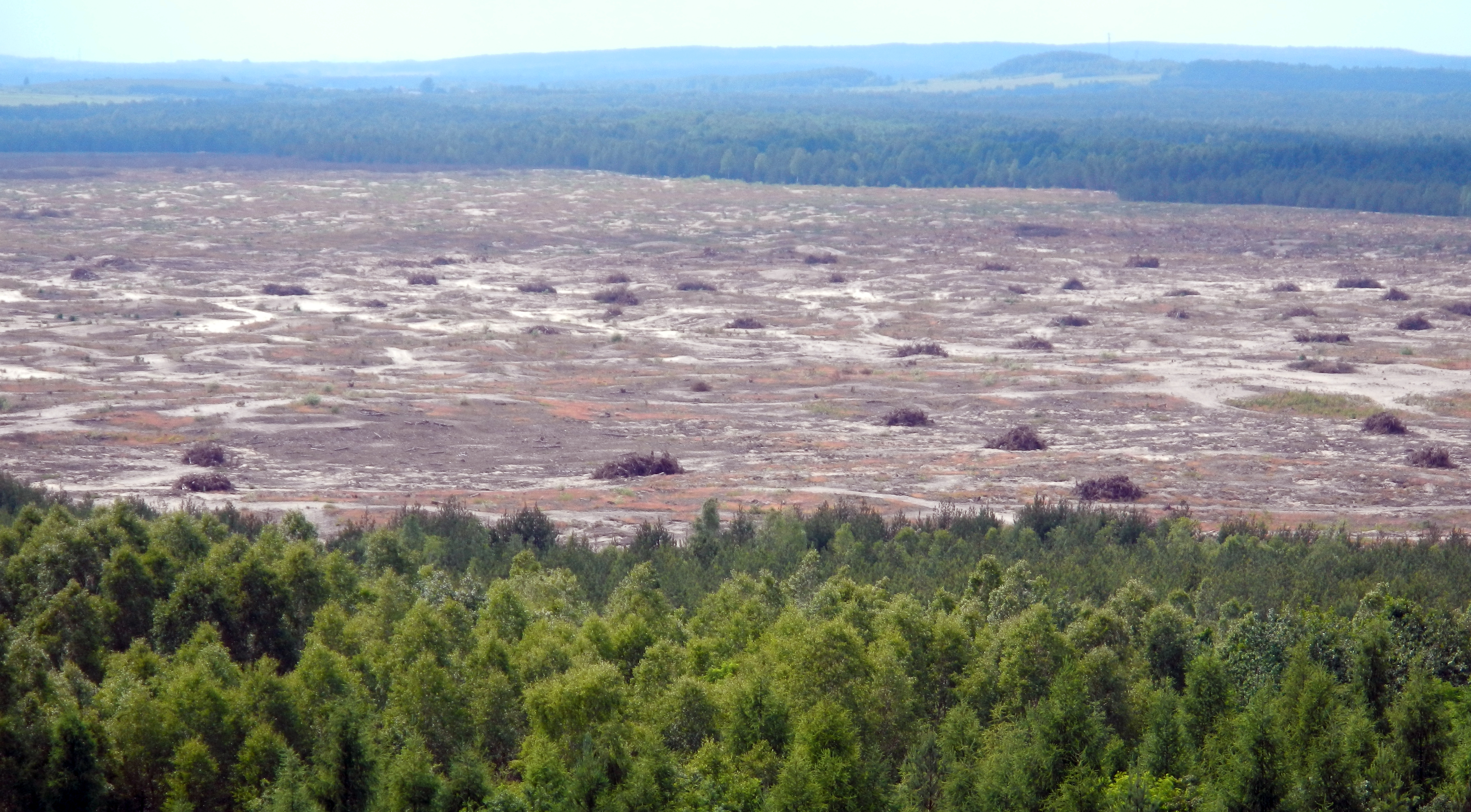 Pustynia Błędowska